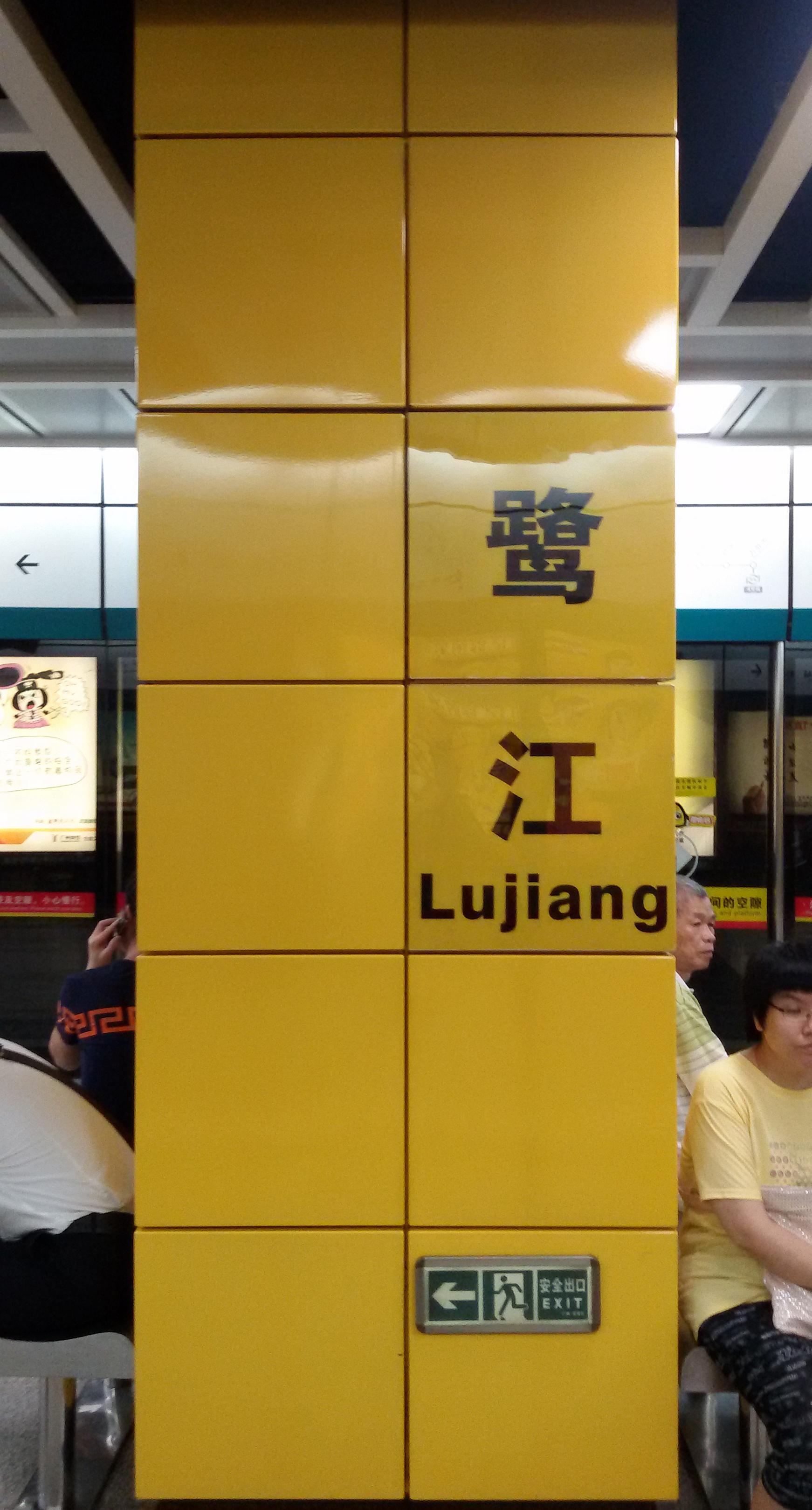 WORD on PILLAR for Lujiang Station in Guangzhou Metro. 粵語: 廣州地鐵，鷺江站嘅柱上面啲字。